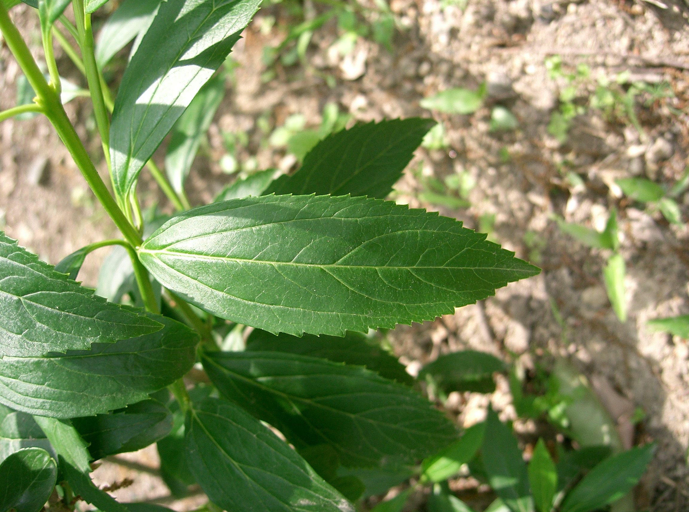 Forsythia suspensa